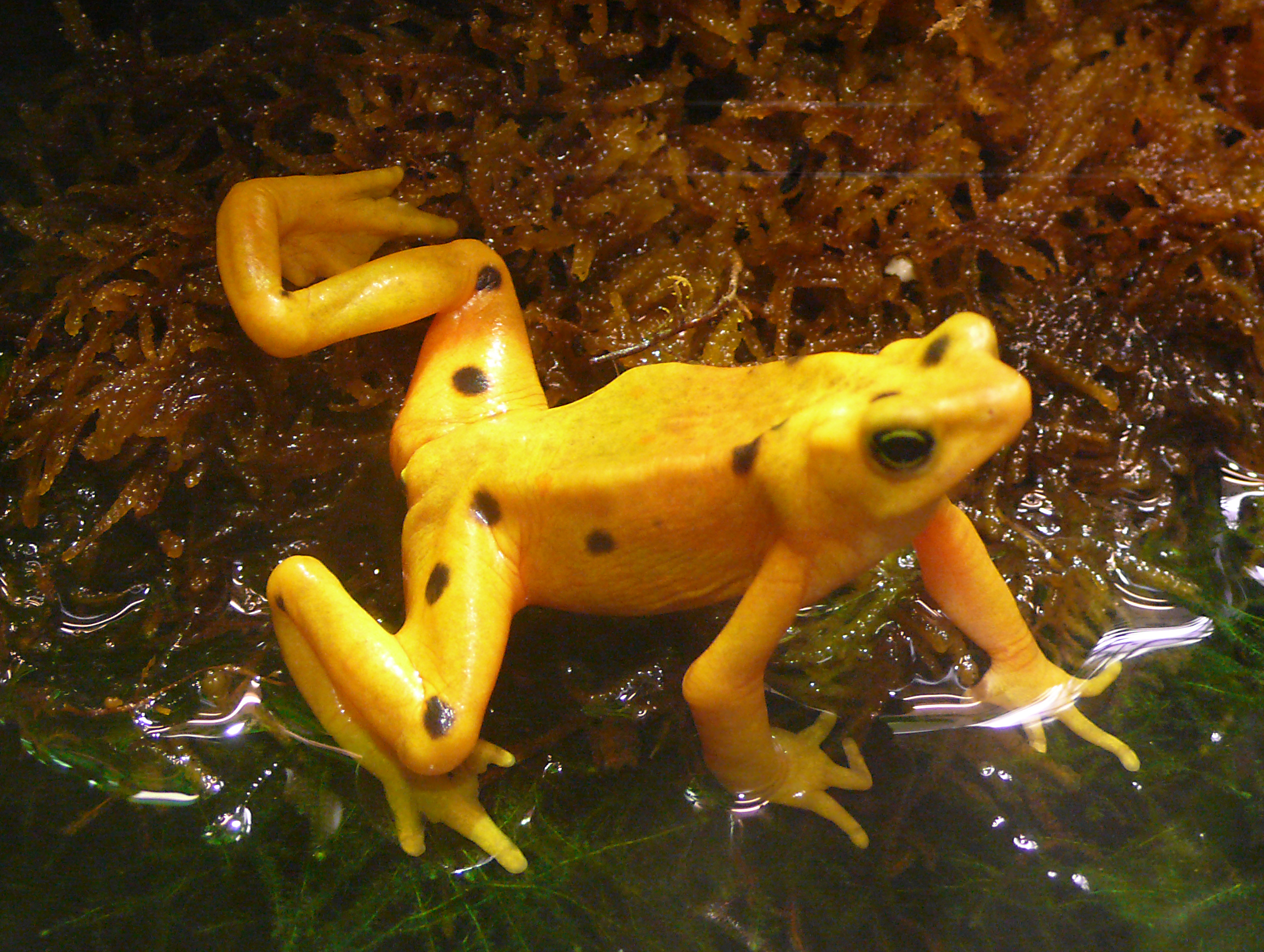 Panamanian golden frog (Atelopus zeteki)